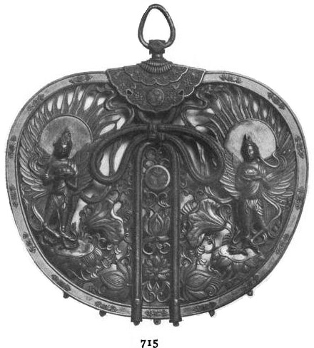 From Matsuki, Bunkio (d.1940), Catalogue of rare objects in brass, leathers and wood.., (1903), p.2, object #715, A keman, gold-surfaced brass, from Shiba Temple, mausoleum of Iyemitsu. Depicting pair of Kwannon among lotus. ca. 1630. (prob. Zojyoji temple in Shiba, Tokyo; bird-footed figures prob. karyobinga not kwannon)